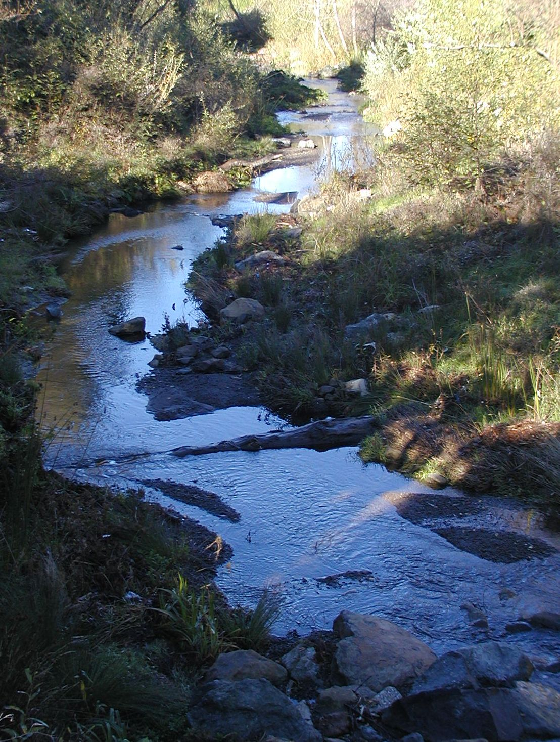 San Pedro Creek, image Capistrano Bridge of reconstructed stream bed project